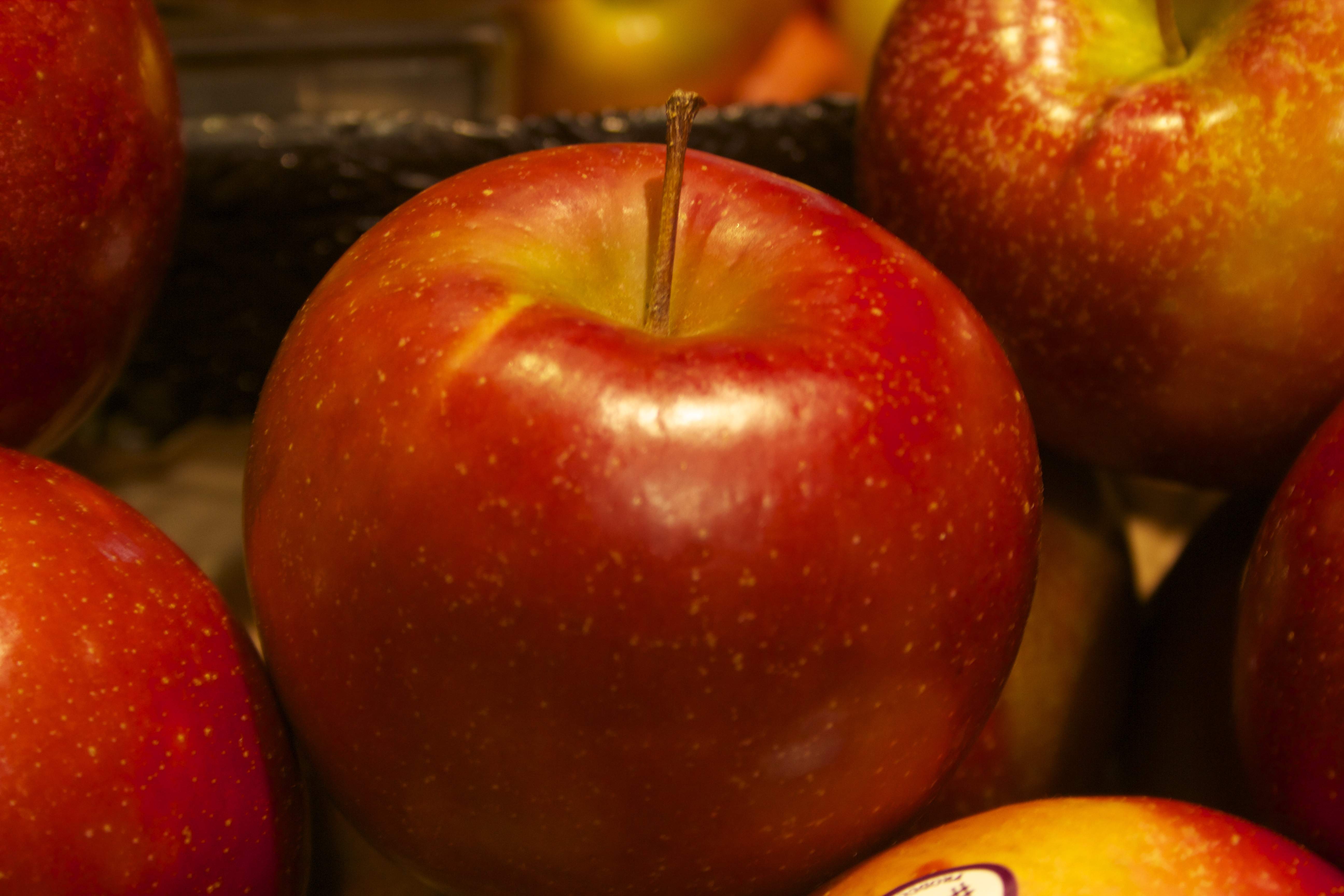 apple